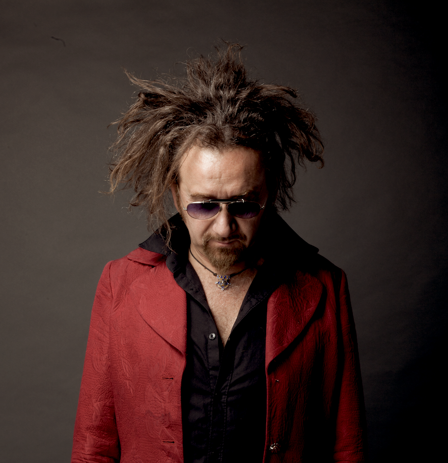 Gaudi - portrait 2016